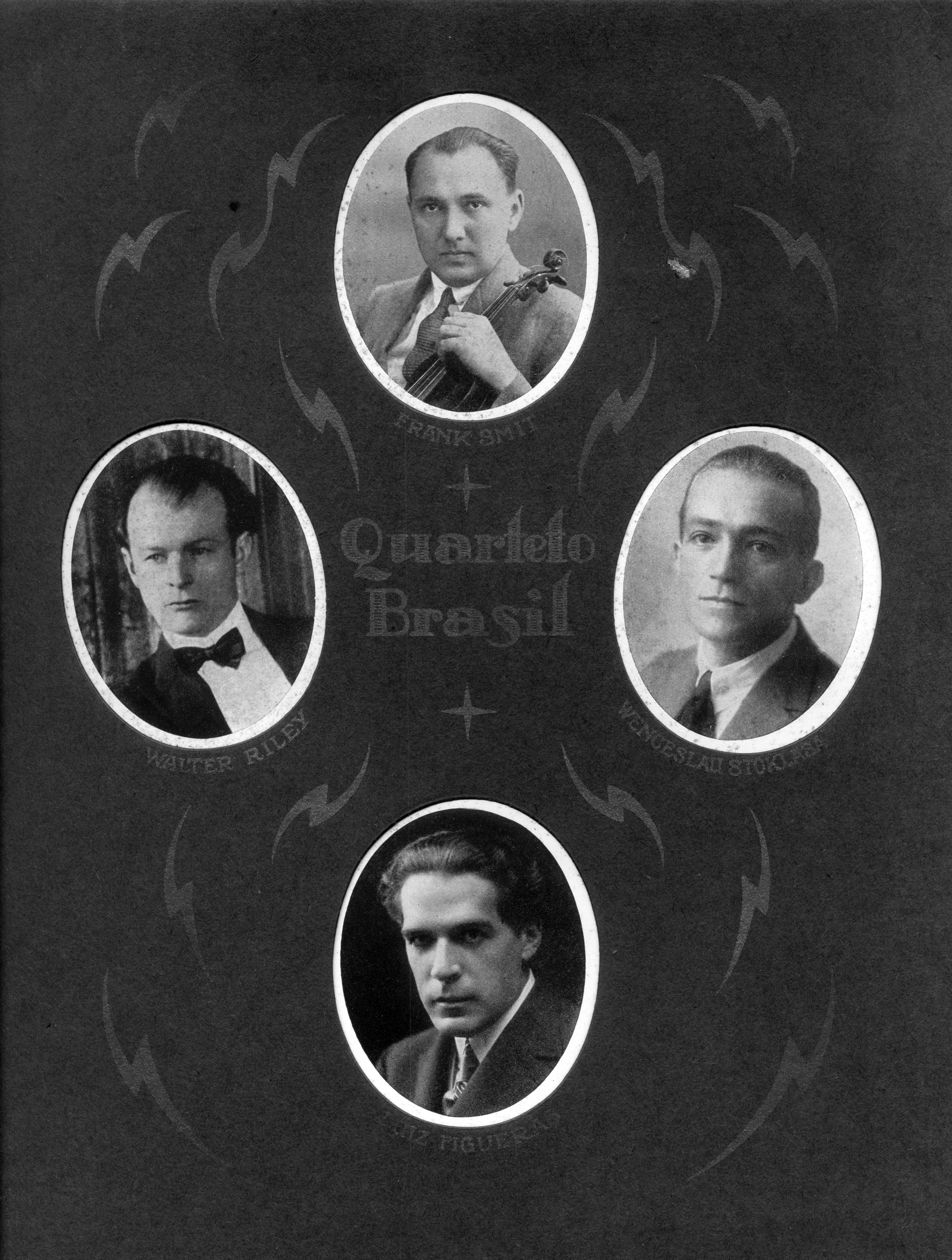 Portrait of the string quartet that performed in Brazil between 1927 and 1945.